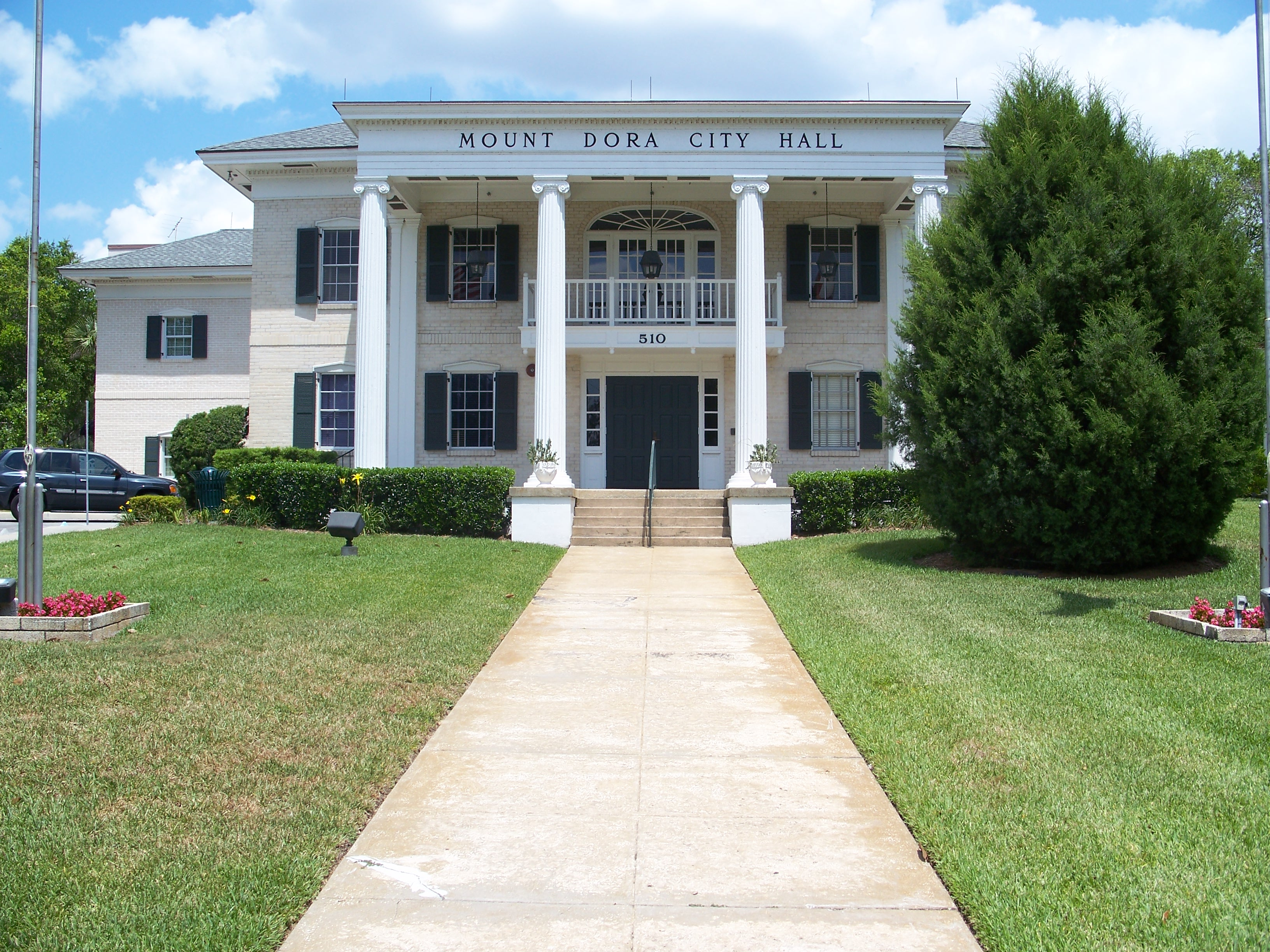 Mount Dora City Hall, in Mount Dora, Florida